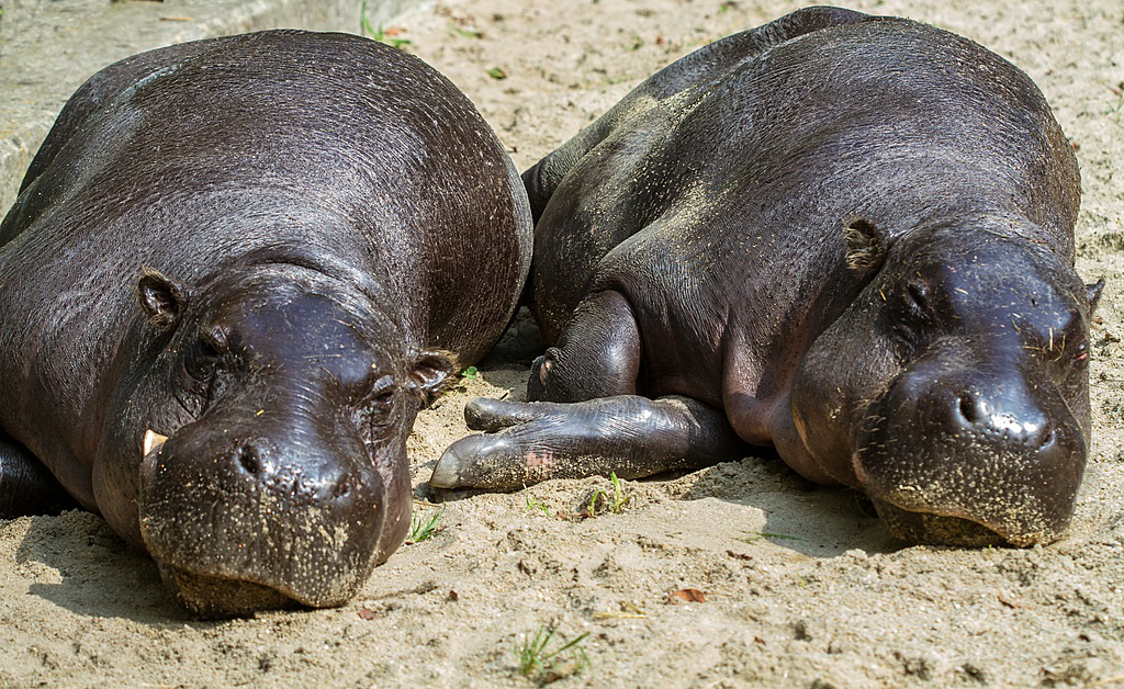 Tierpark Chemnitz: Pygmy hippopotamus